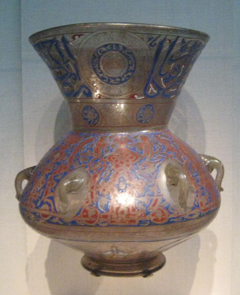 Circa 1360 Egyptian lamp. Made of glass and painted with enamel and gold, it is located in the Freer Gallery of Art.